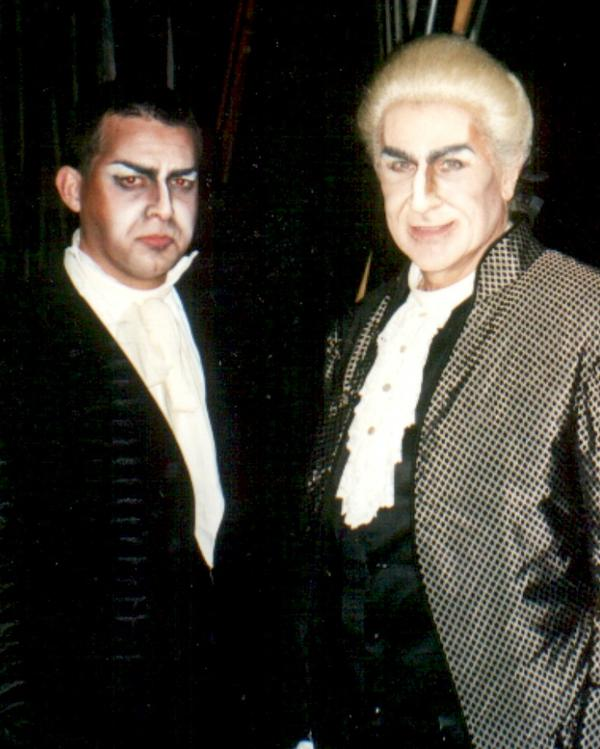 Baritone Sherrill Milnes as Scarpia (right) and me as Roberti (left), from "Tosca" - Puccini Festival in Torre del Lago, summer 1997